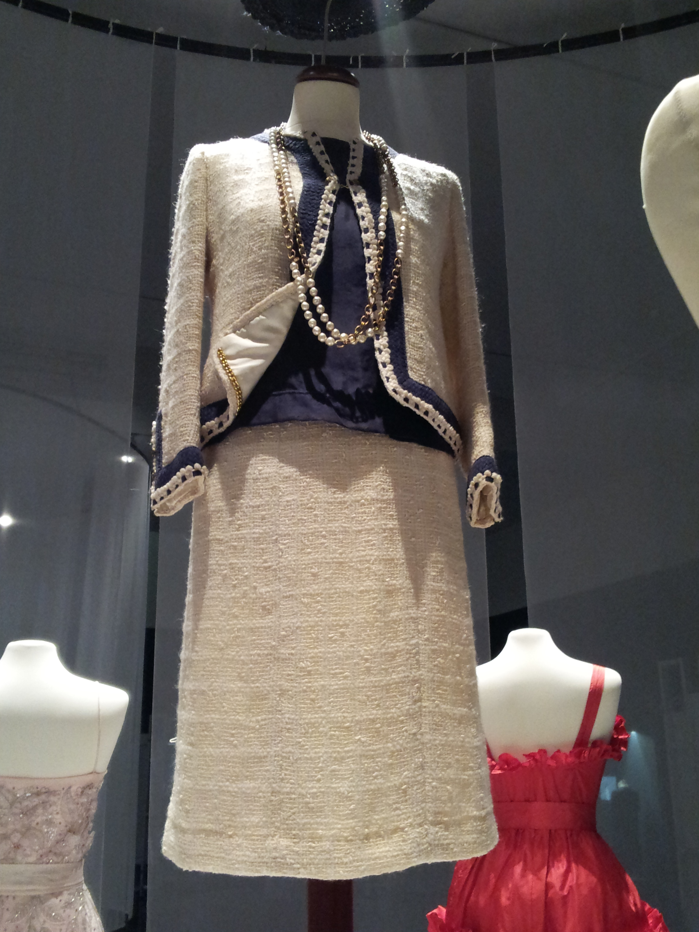 Chanel suit in cream wool tweed with black silk blouse, 1965-69